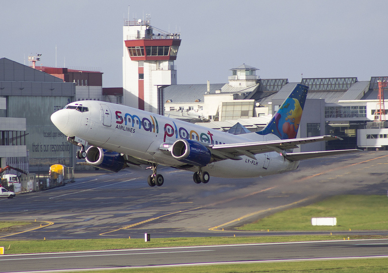 Small Planet Airlines Boeing 737-300 takes off from Vilnius Airport